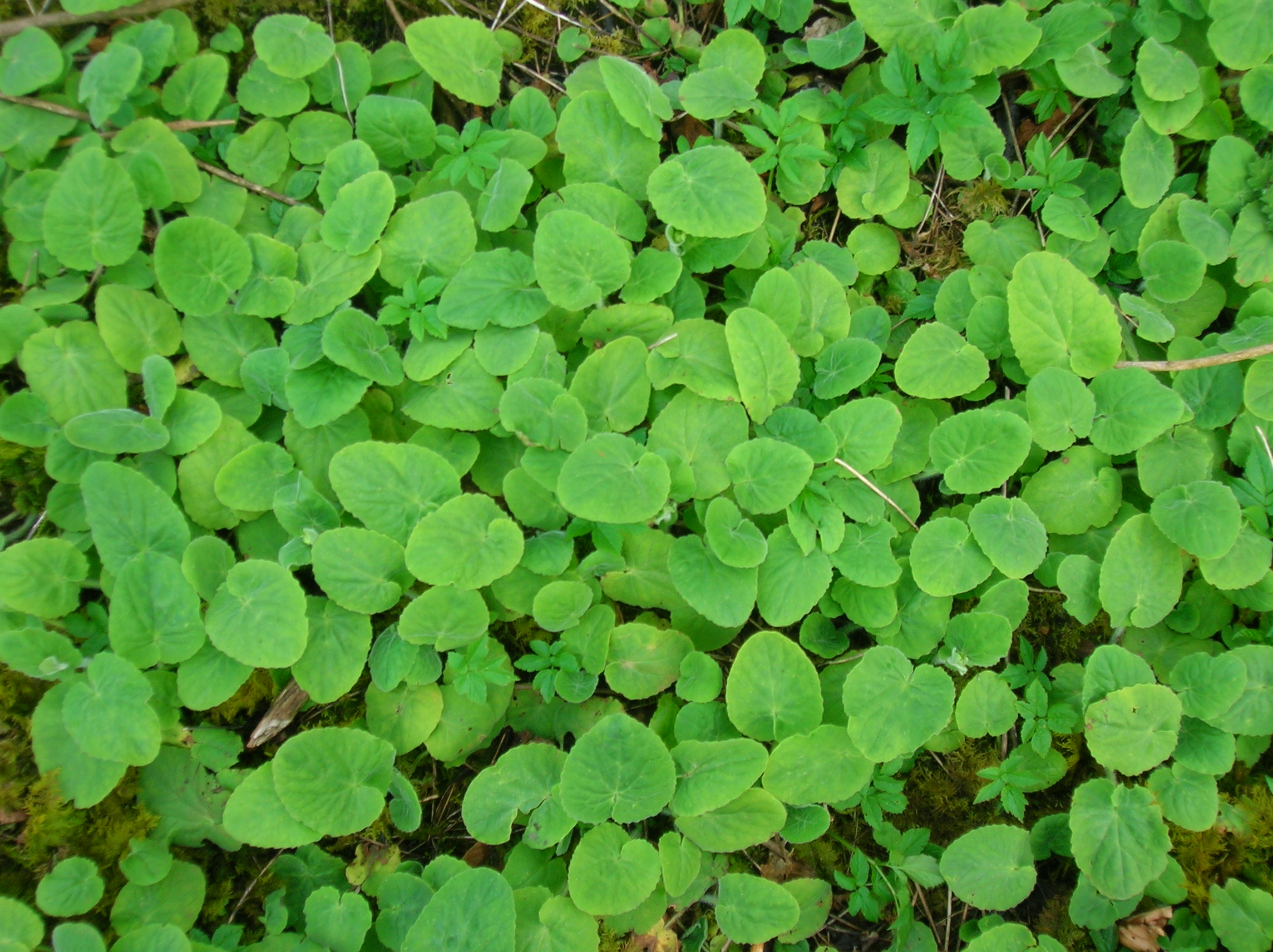 Great Leopards-Bane, Doronicum pardalianches, Speir's School grounds, Ayrshire, Scotland